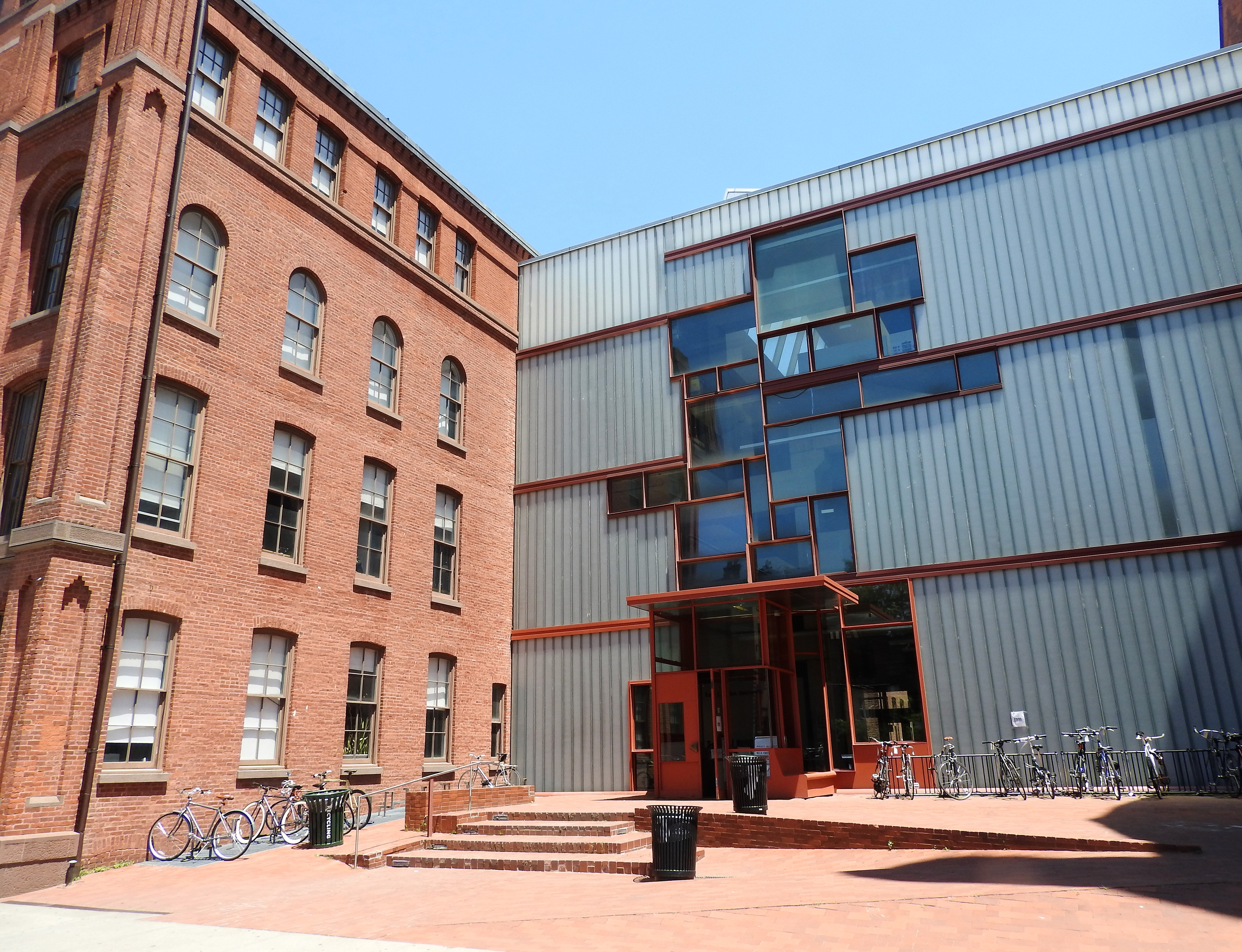 Looking northeast from St James Pl at Architectural school